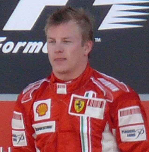 Kimi Räikkönen in SIlverstone Circuit Podium.